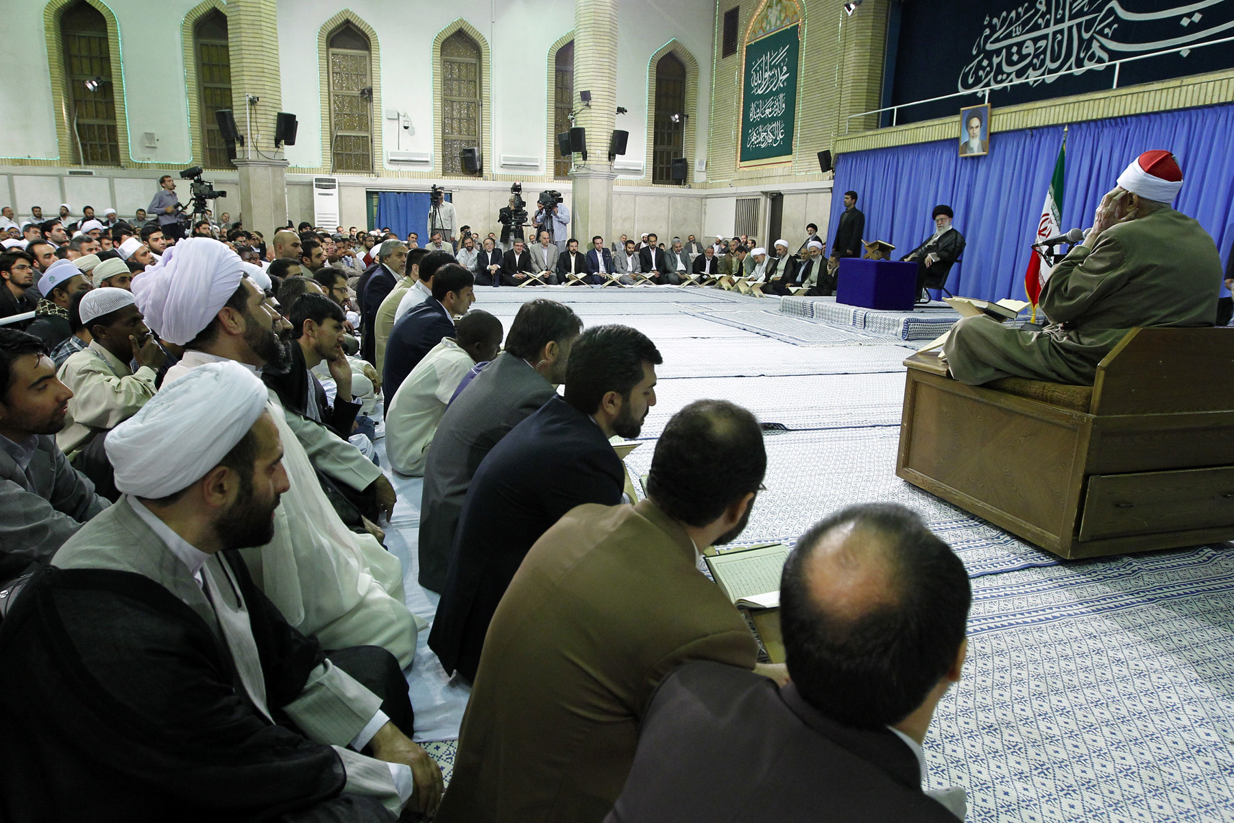 Ahmad Mohammad Amer Reading Quran in the Presence of Ali Khamenei in International Quran Competition's participants Meeting With Ayatollah Seyyed Ali Khamenei in 25 July2009 in Imam Khomeini Hussainiya